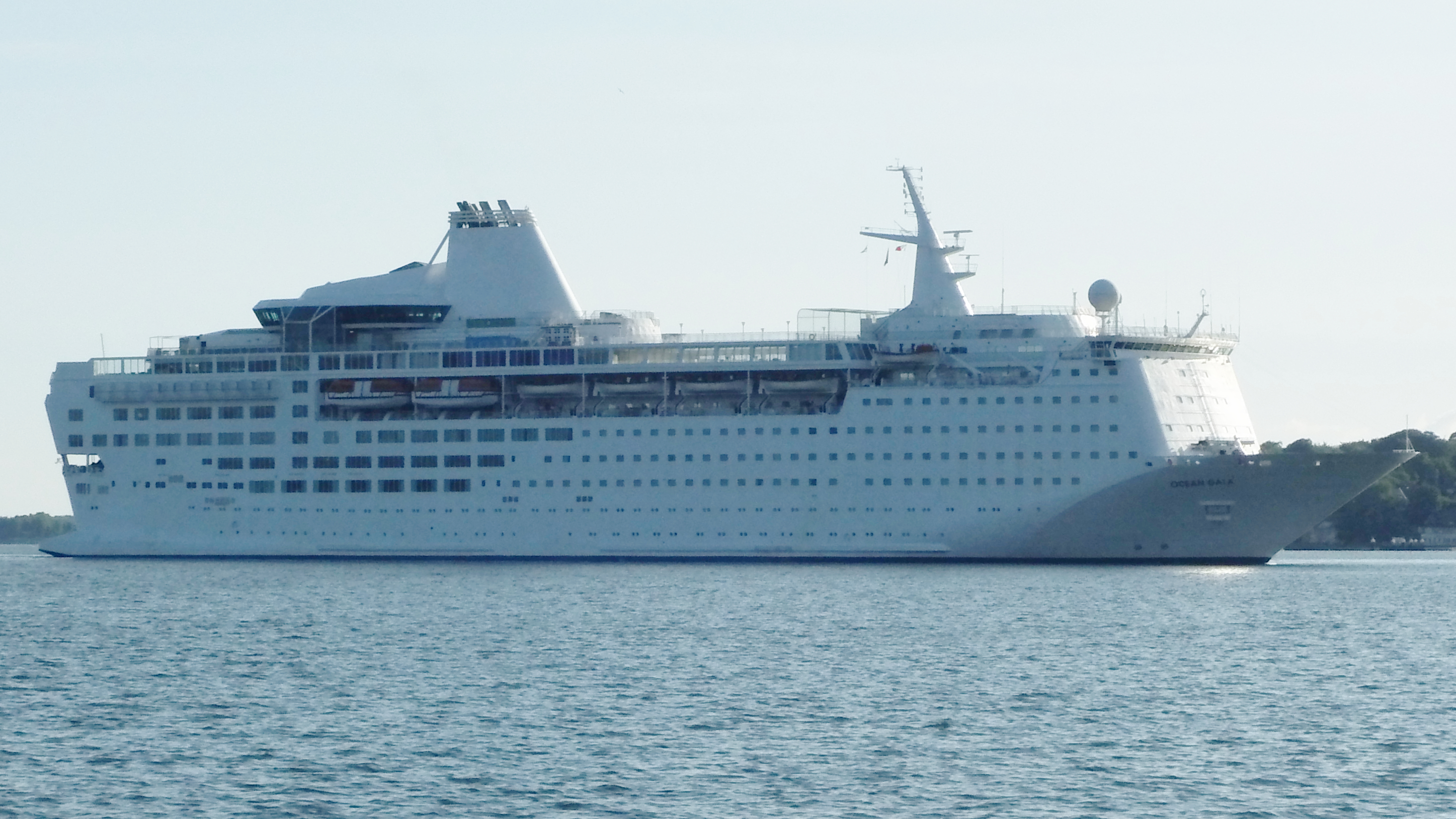 Former cruise ship Ocean Gala entering Port of Kiel.